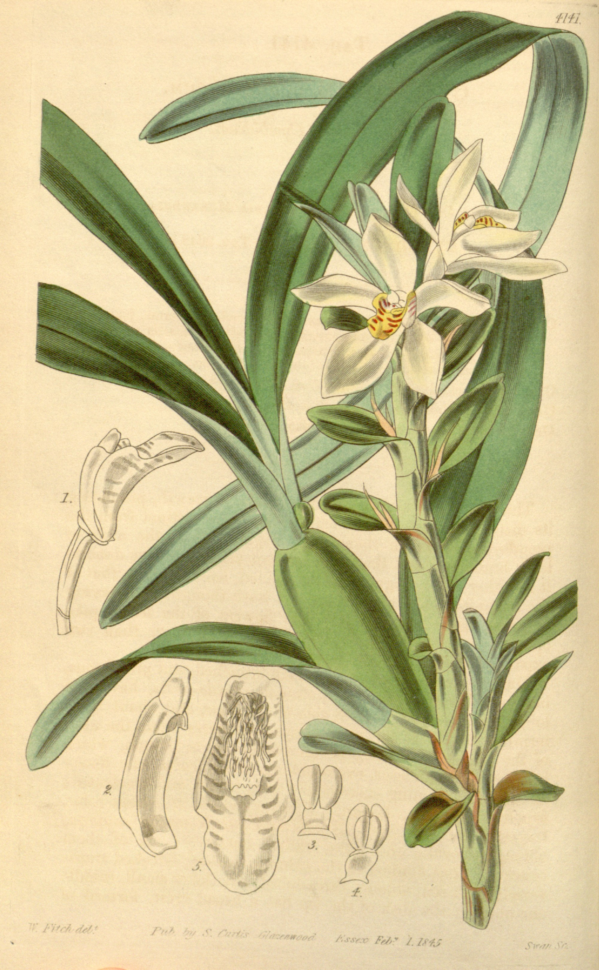 Illustration of Maxillaria lutescens